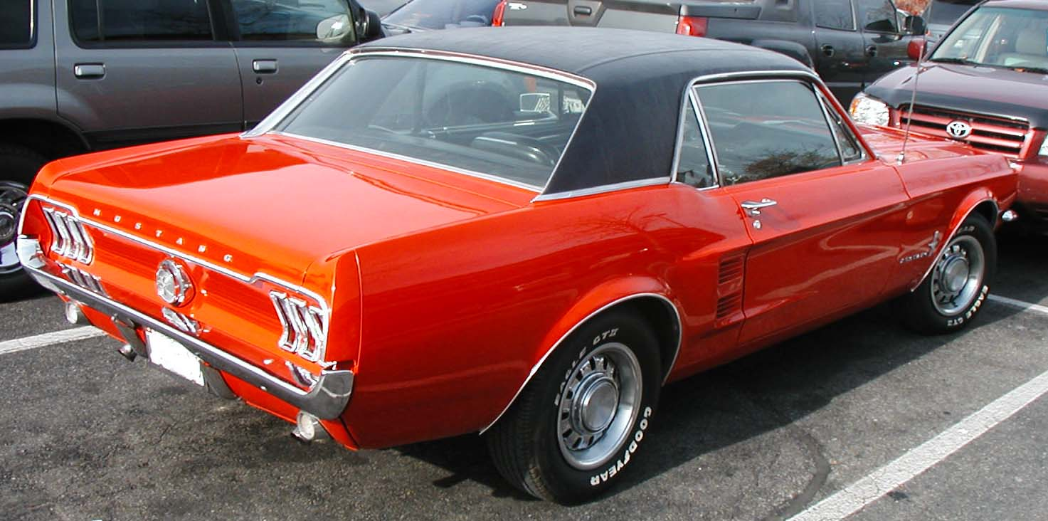 1967 Ford Mustang photographed in USA.